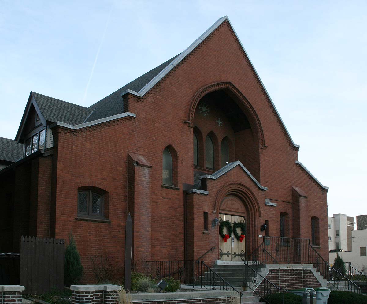 Sixth Church of Christ Scientist, National Registered Historic Place, Milwaukee Wisconsin.